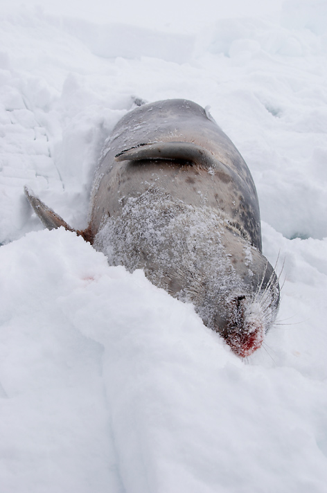 Dead seal (Harp Seal?) in the snow after being "fished".